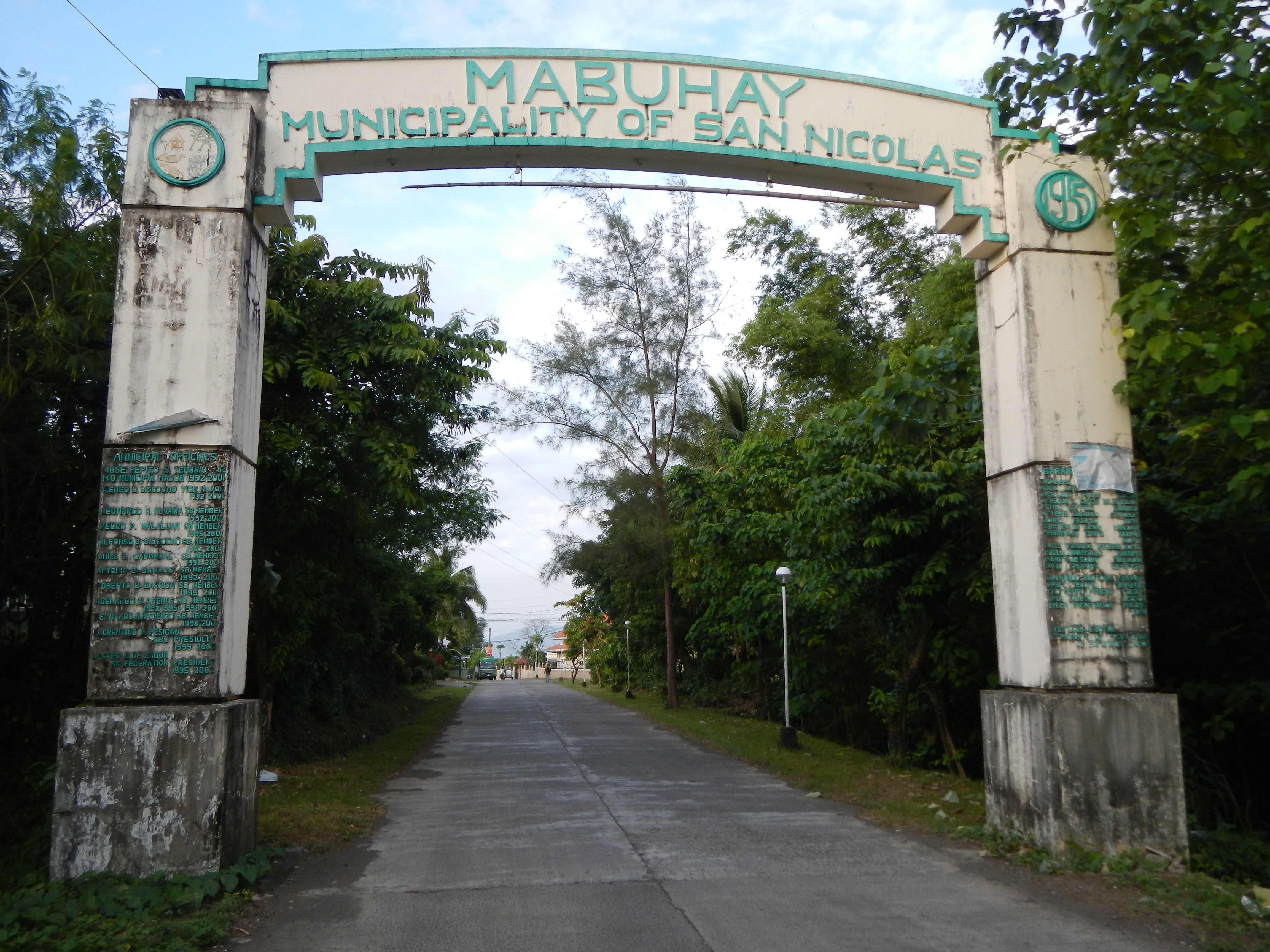 San Nicolas, Batangas[1] (a fifth class municipality in the province of Batangas, Philippines latest census, a population of 19,046 people in 2,946 households the smallest municipality in Batangas with 14.34 square kilometers of land area, which includes half of the Taal Volcano island) Welcome Arch.